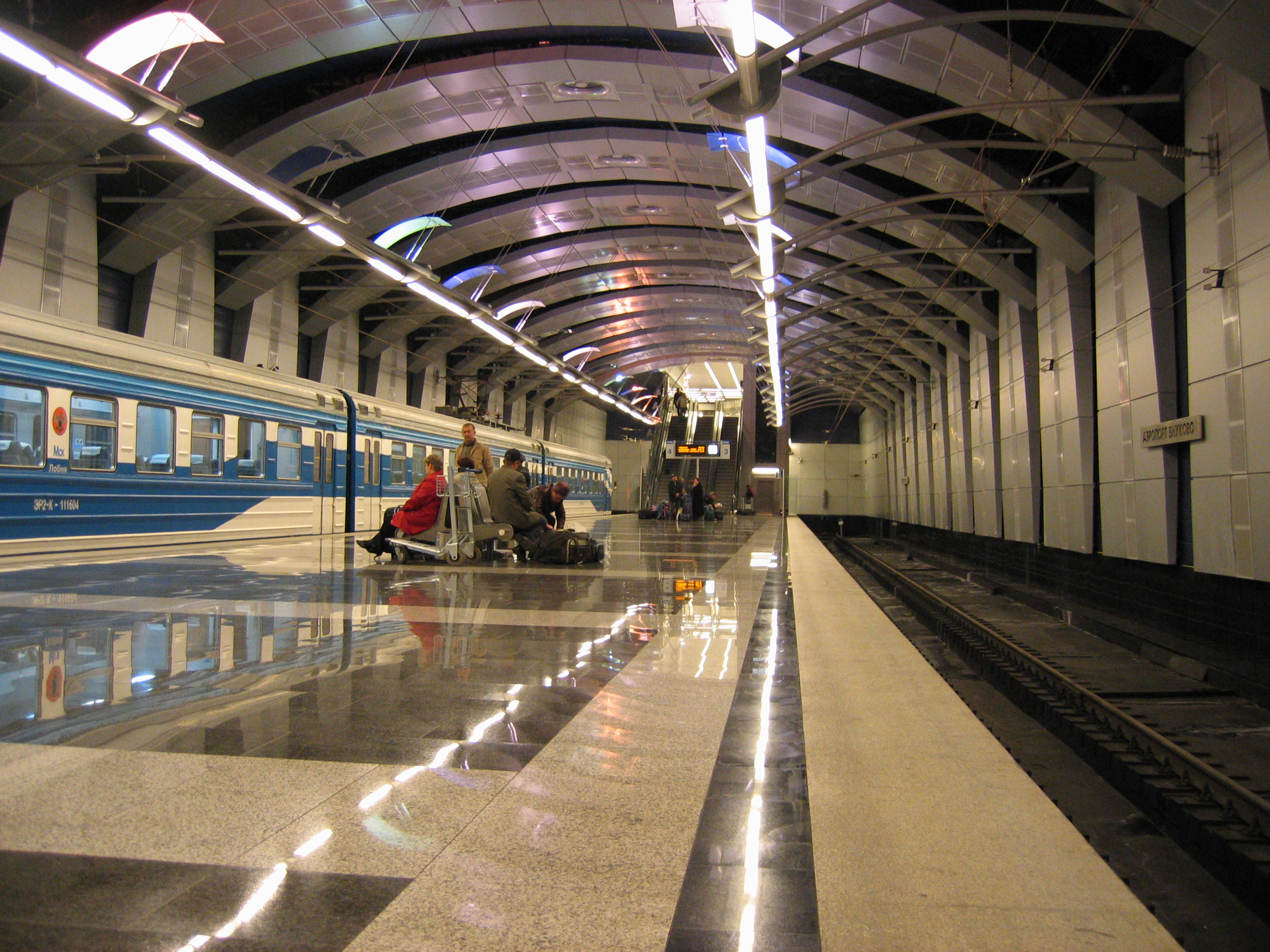 Vnukovo Airport, train station